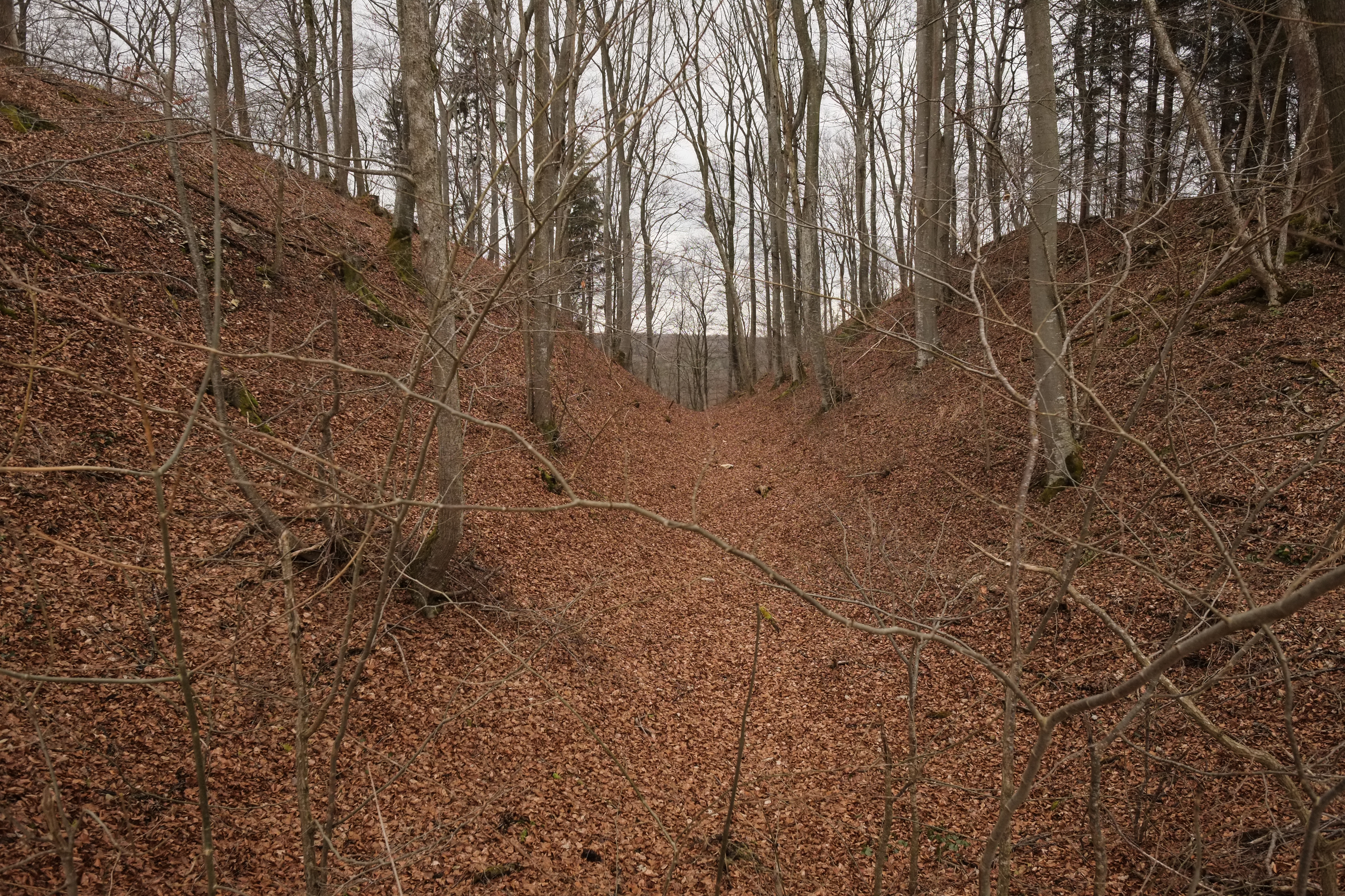 Hillfort Alte Burg, Langenenslingen, district Biberach, Baden-Württemberg, Germany